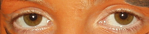 c